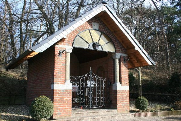 Cultural heritage monument No. 55 in Gangelt